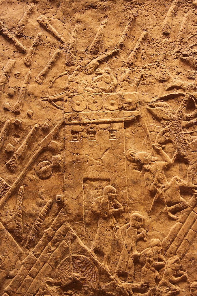 Siege Tower on the Lachish Reliefs in the British Museum